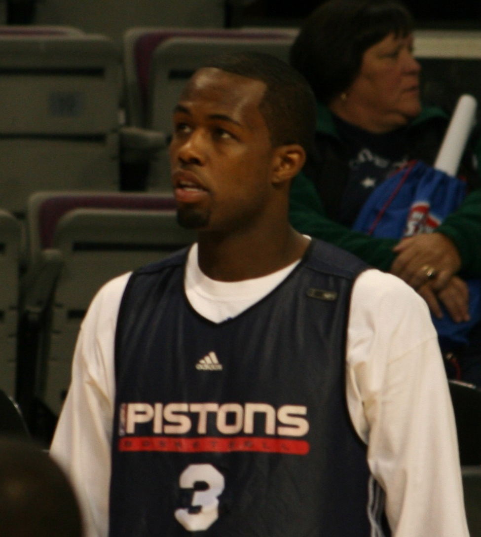 Rodney Stuckey, the 15th pick. Rodney Stuckey won in 2006 while at Eastern Washington.